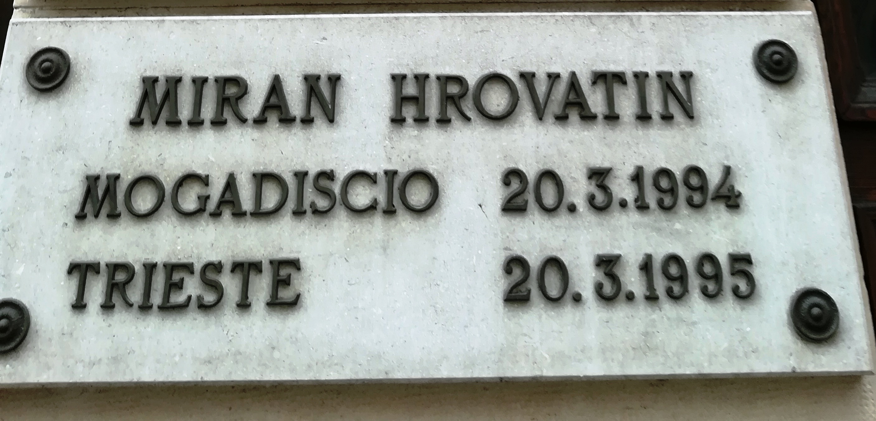 Targa commemorativa a Trieste: " Miran Hrovatin Mogadiscio, 20.3.1994 Trieste, 20.3.1995 "